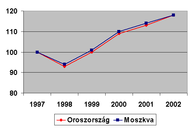 The growth of the GDP in Russia and Moscow in percentage, between 1997 and 2002. Created based on the data in a report created by Solid Invest in 2003. File created in PowerPoint and saved as PNG.